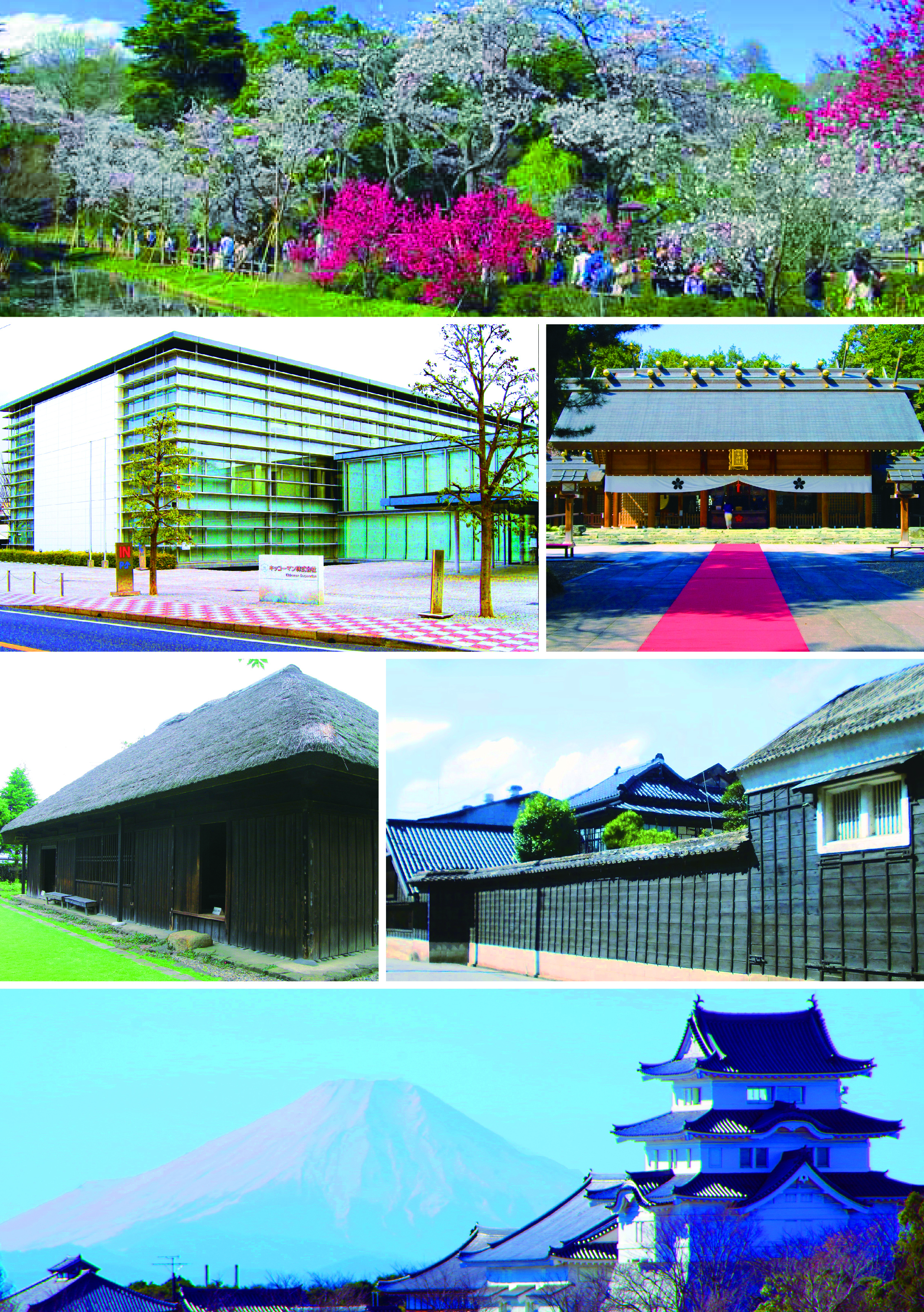 Noda montage.jpg